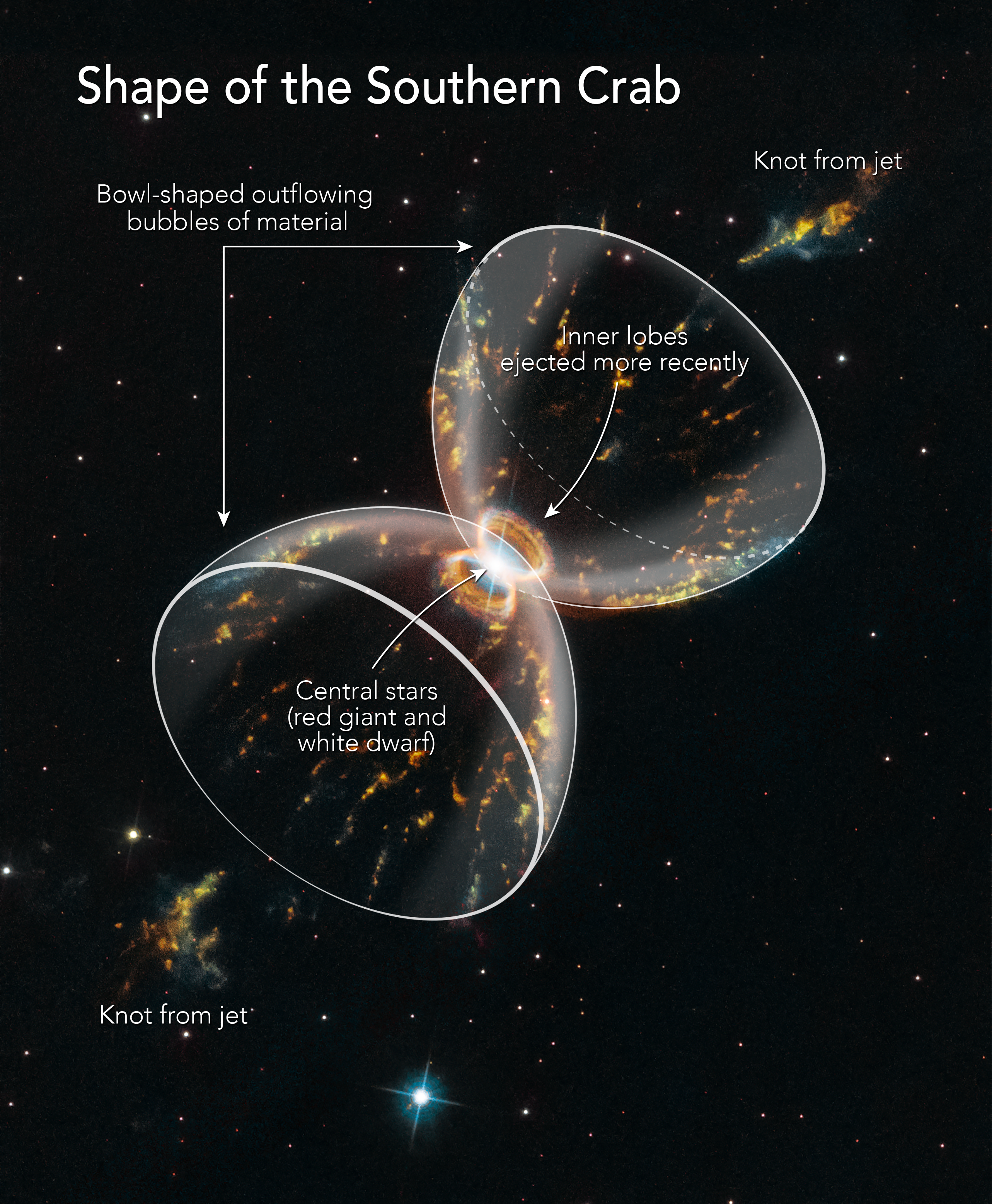 Diagram of the Southern Crab Nebula Structure This diagram traces the hourglass structure formed by a pair of huge, bipolar gas bubbles ejected by a double star in the center of the Southern Crab Nebula. The gases are dispersed too thinly for the full shape of the hourglass to be photographed. Instead, the bubbles appear brightest at the edges, giving the illusion of crab leg structures. The stars are likely embedded inside a disk of material that constricts and directs the outflow of gas from the system. This disk apparently also launched twin jets of material that form knots far outside the system as they slam into interstellar material.